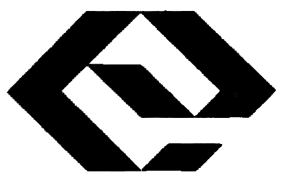 Símbolo del Banco Español-Chile en los años 1980s.